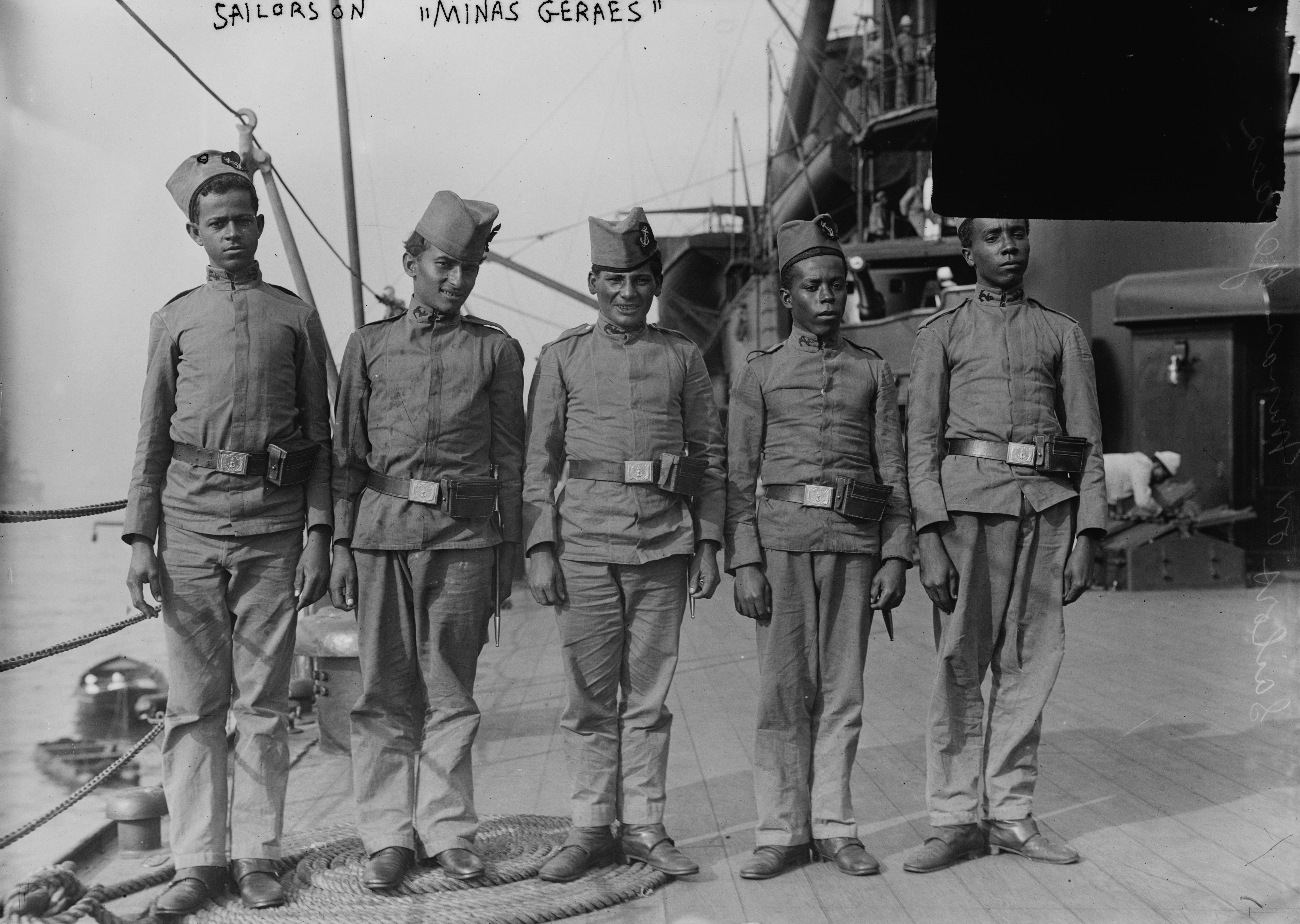 Marines from Minas Geraes. A digitally reconstructed image, using one other image as a reference, is available.